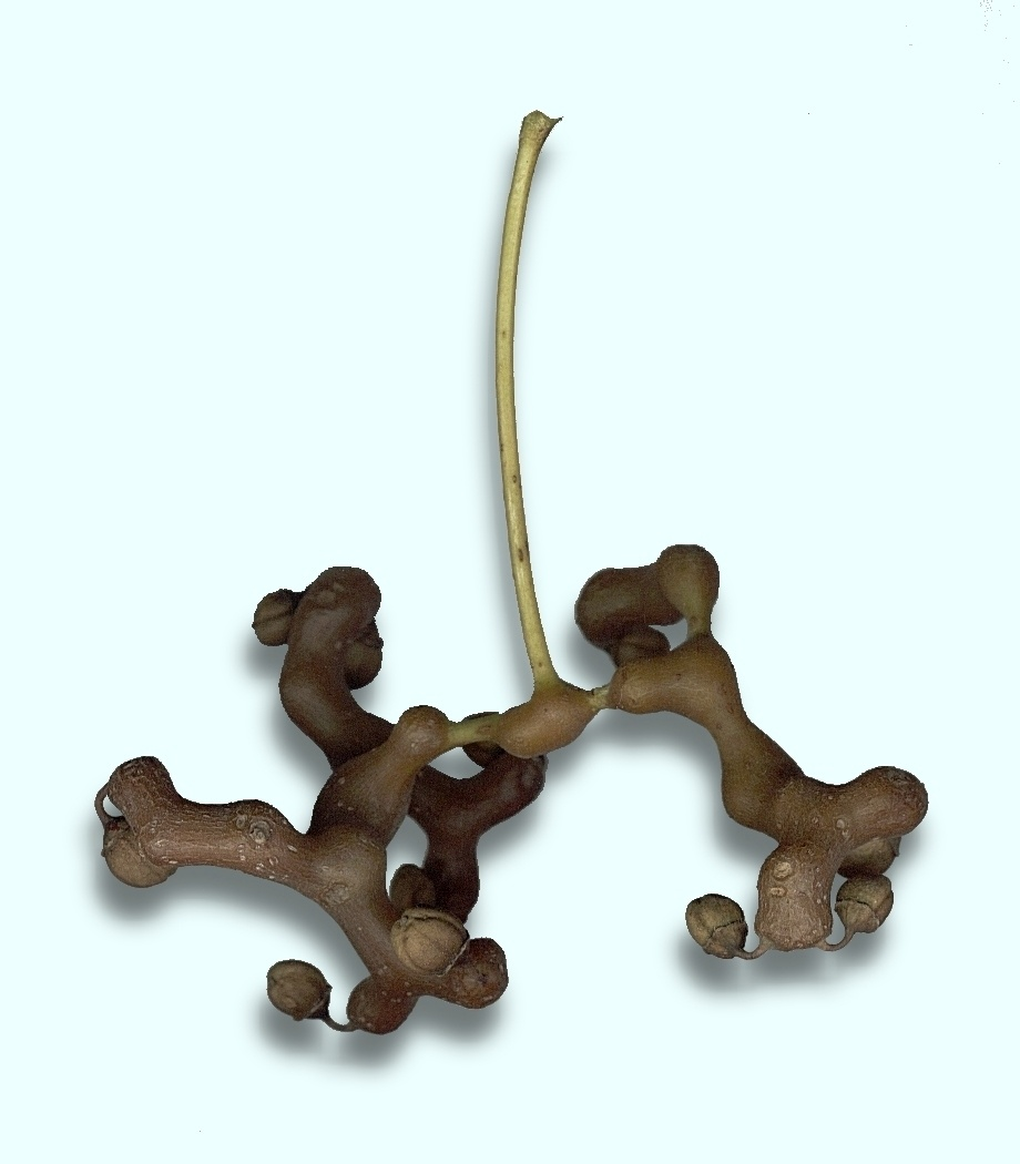 Ripe drupes of the Oriental raisin tree attached to edible fleshy fruit stalks